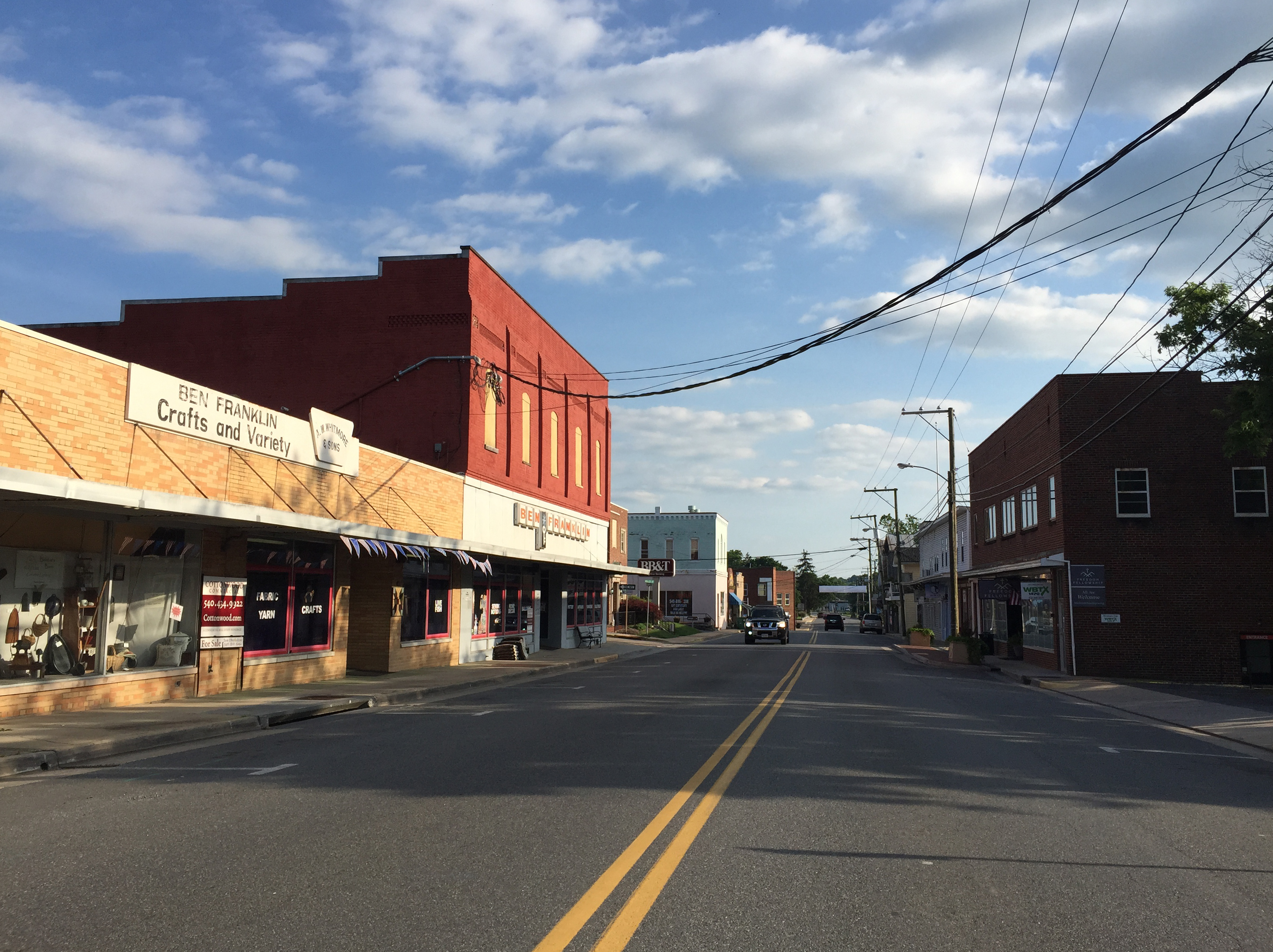 View south along Virginia State Route 42 and east along Virginia State Route 259 Alternate (Main Street) between Mason Street and Miller Street in Broadway, Rockingham County, Virginia